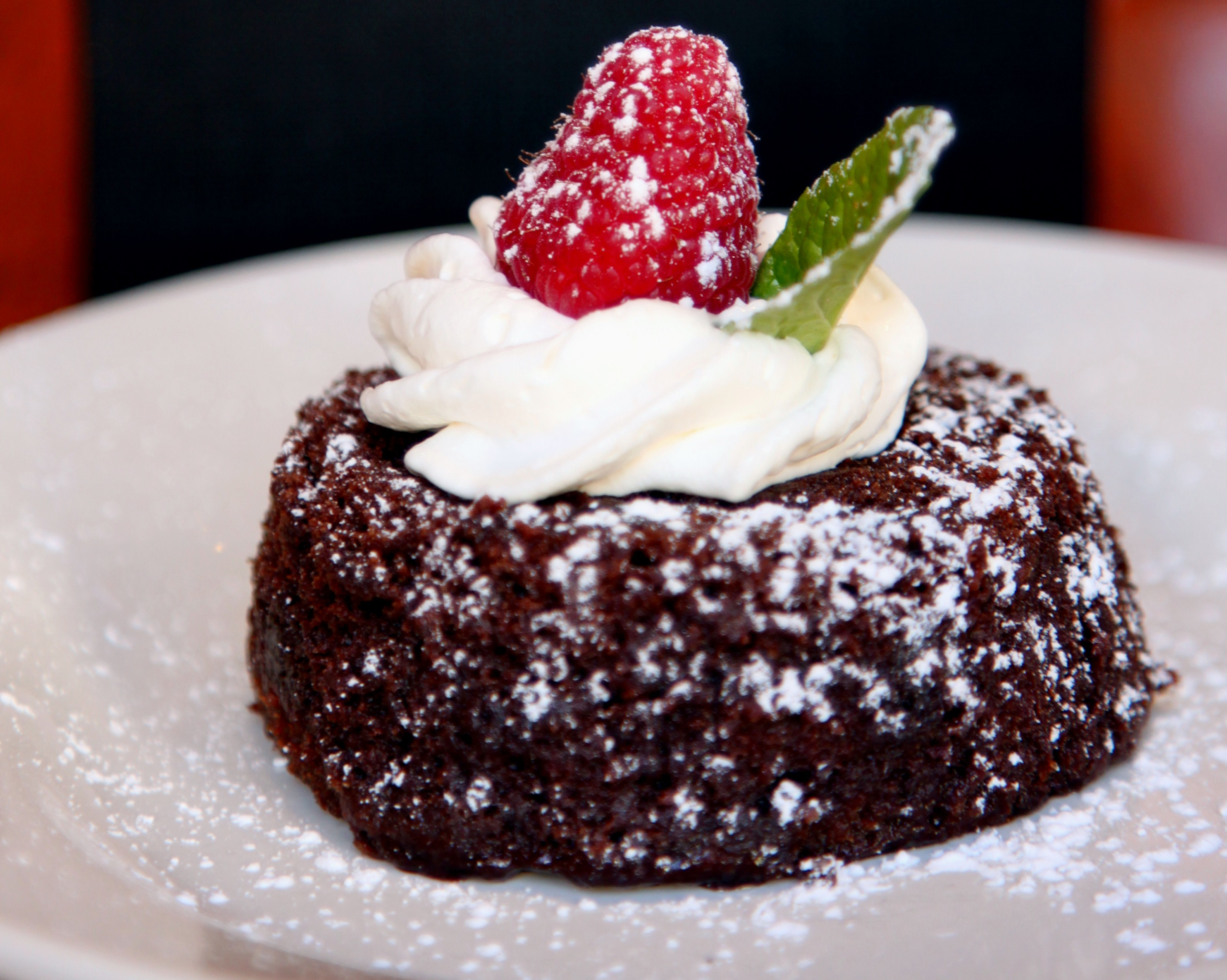 Café Tu Tu Tango 20 City Blvd West City Of Orange, CA 92868